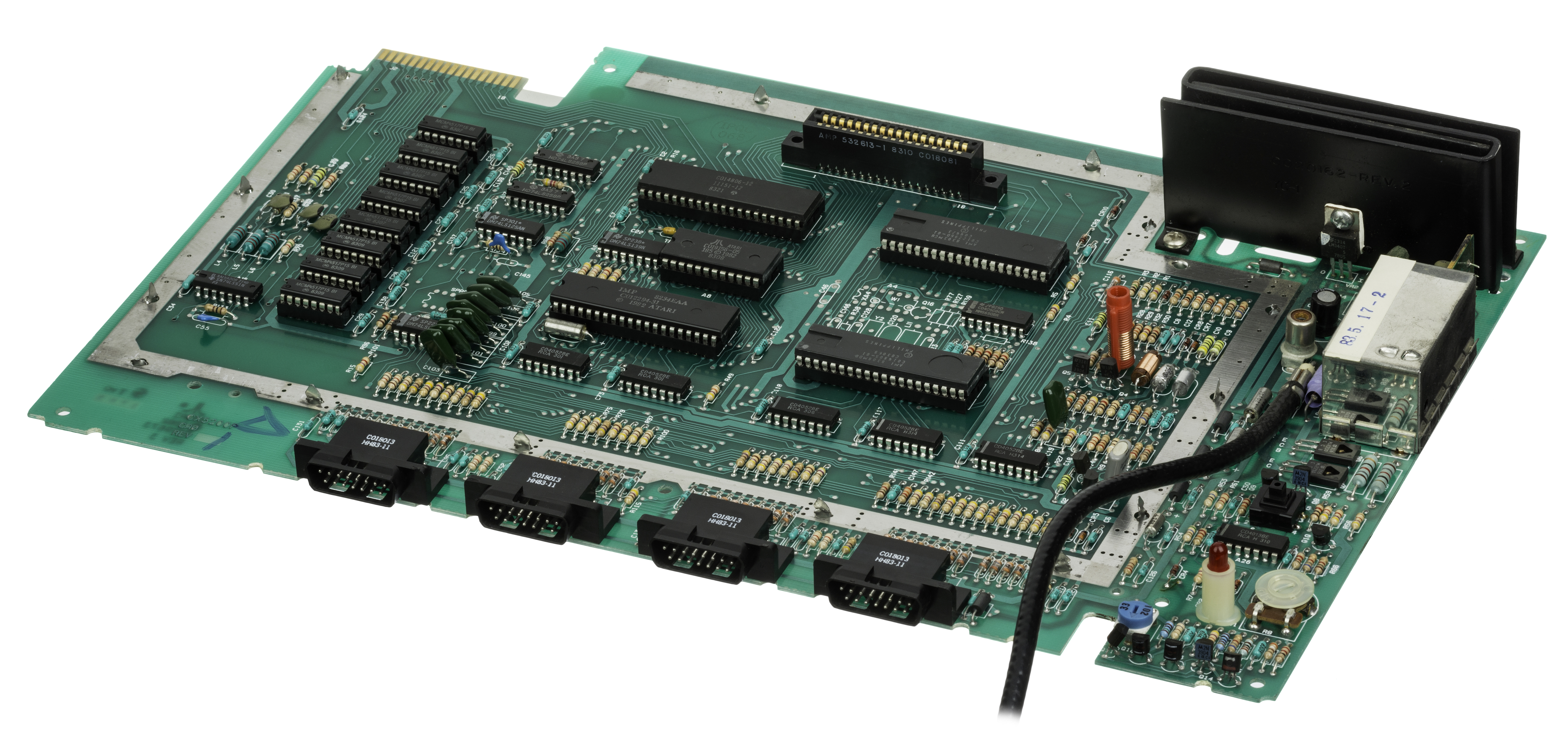 The motherboard of the Atari 5200, a gaming system released by Atari in 1982. Atari's follow-up to the very successful 2600, the 5200 was a larger, more powerful system that was based on the Atari 8-bit 400/800 computer line. It did not fare well in the market, due to Atari's and the gaming market's collapse in 1983. Noticeable on this motherboard is a expansion connector, which could be accessed through the back of the system, though was never utilized in the 5200's short life.